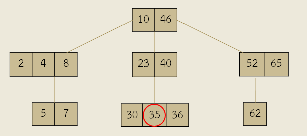 เป็นการค้นหาภายในต้นไม้ 2-3-4